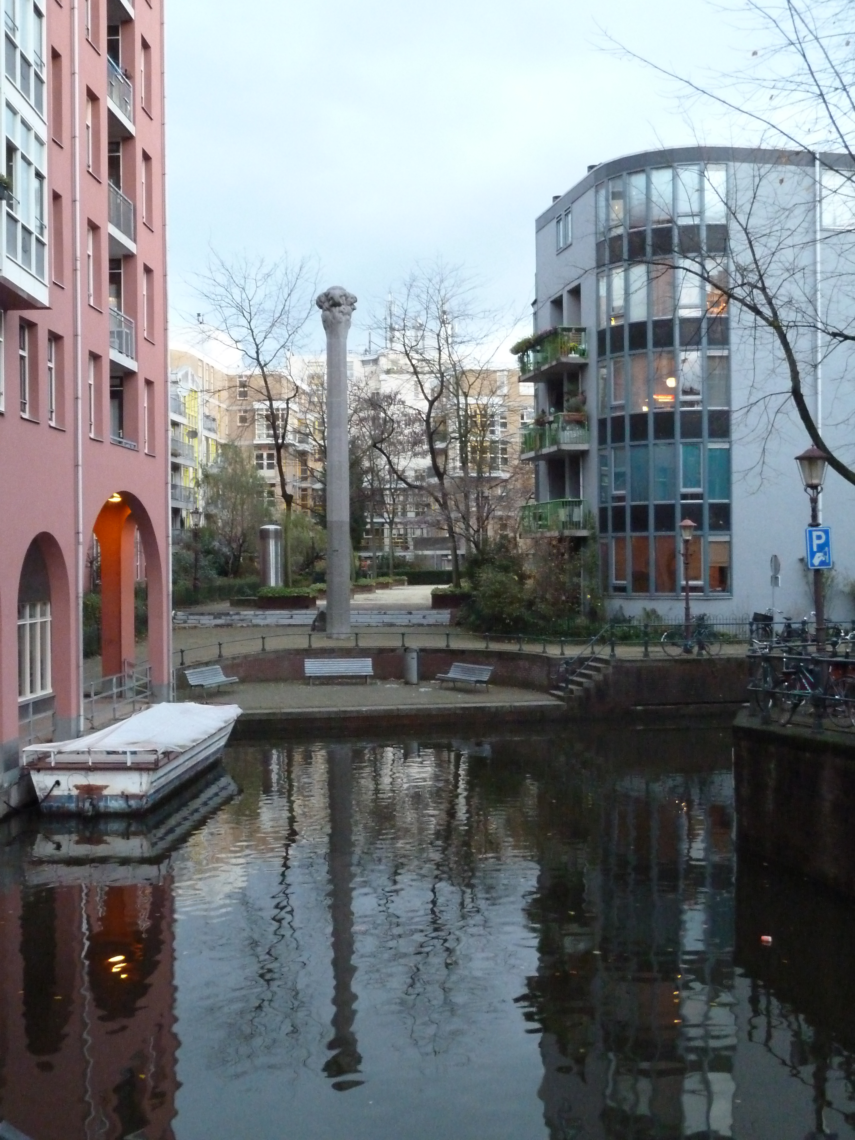 Amsterdam